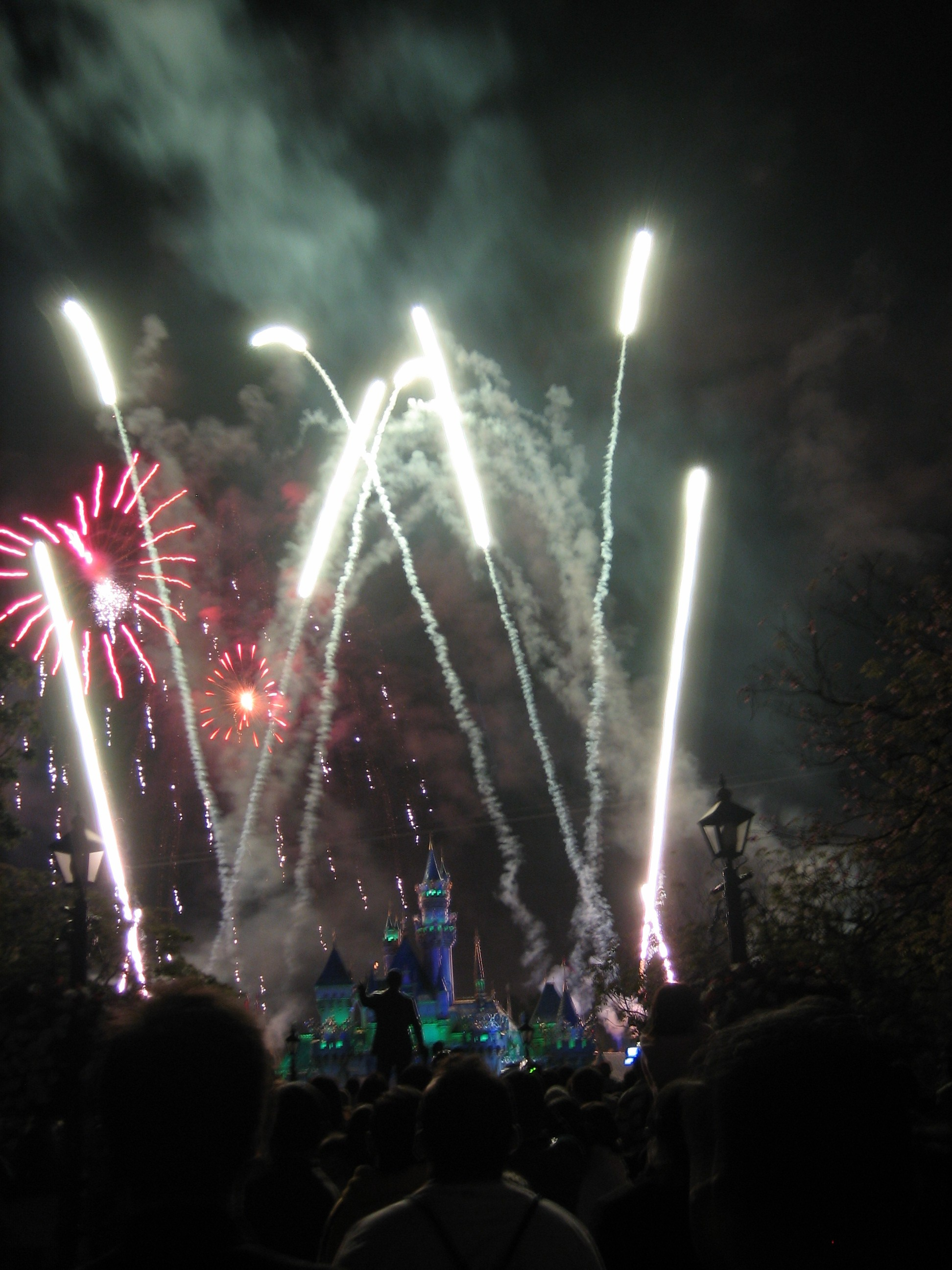 Disneyland California fireworks castle